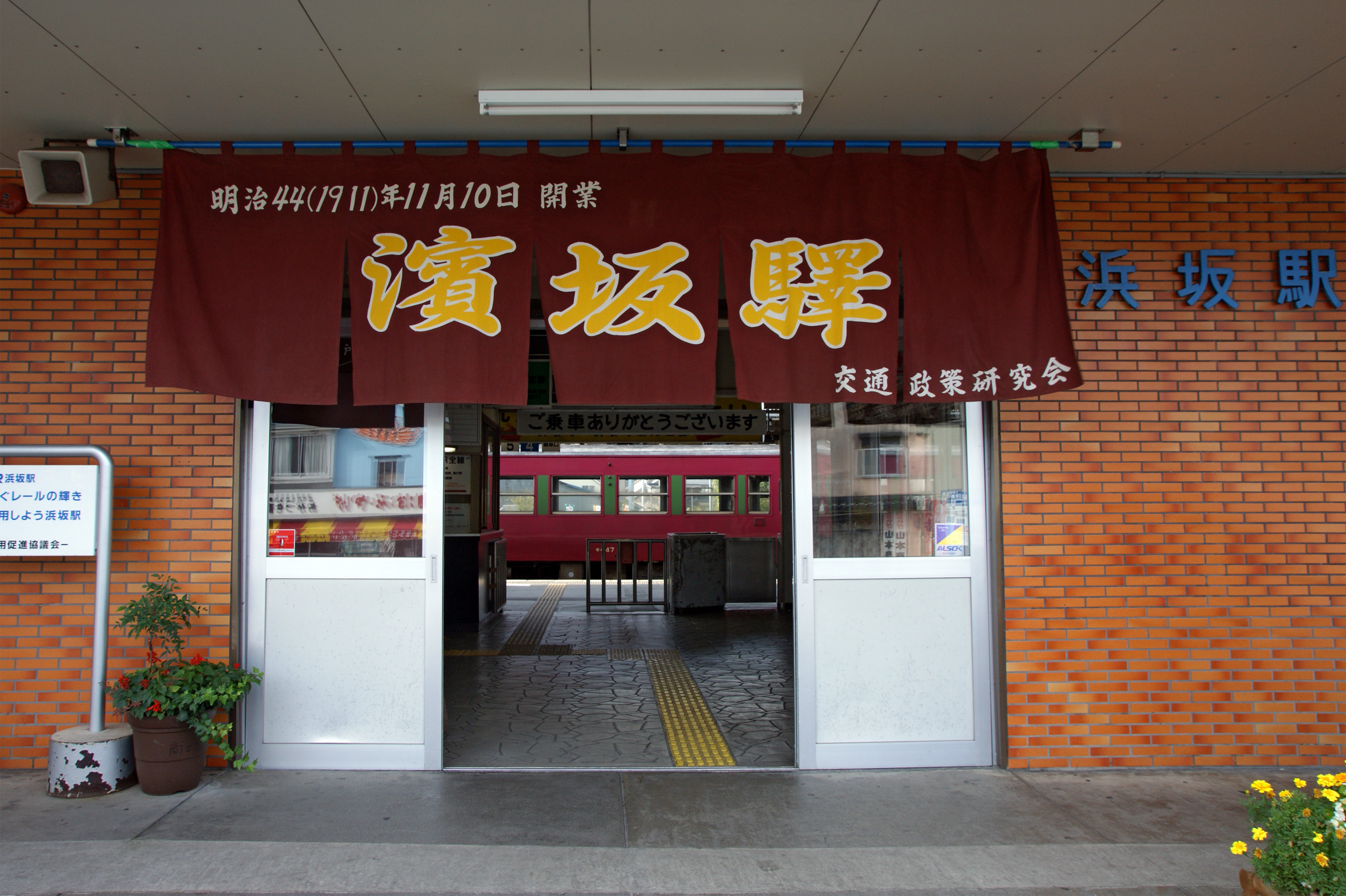 Hamasaka Station in Shinonsen, Hyogo prefecture, Japan